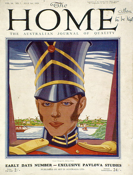 Cover of The Home journal, Volume 7 No.10. July 1st 1929. Published in Sydney, Australia. In the collection of the National Gallery of Australia, Purchased 1976, Accession No: NGA 76.52.47.10